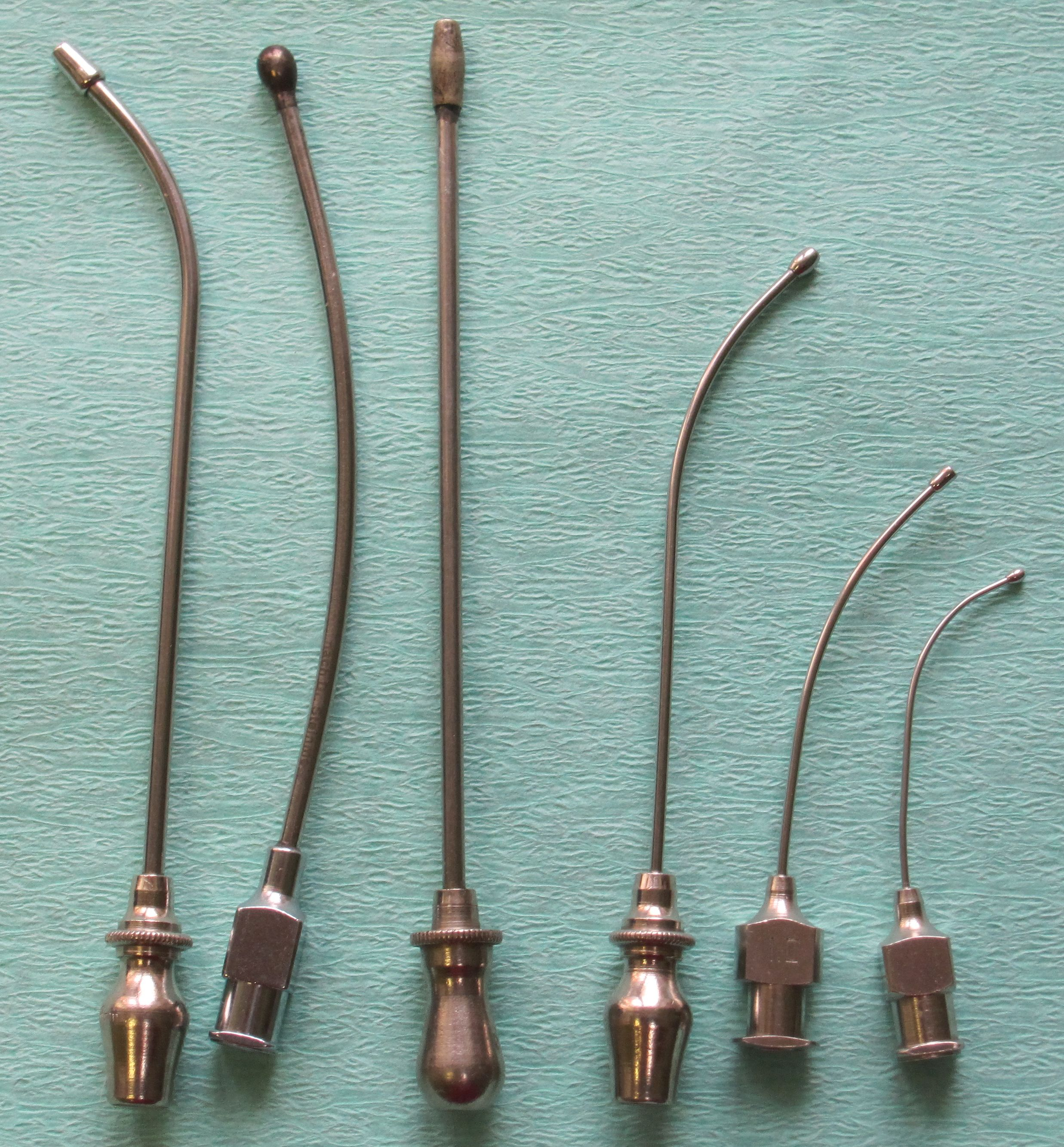 buttoned cannulas